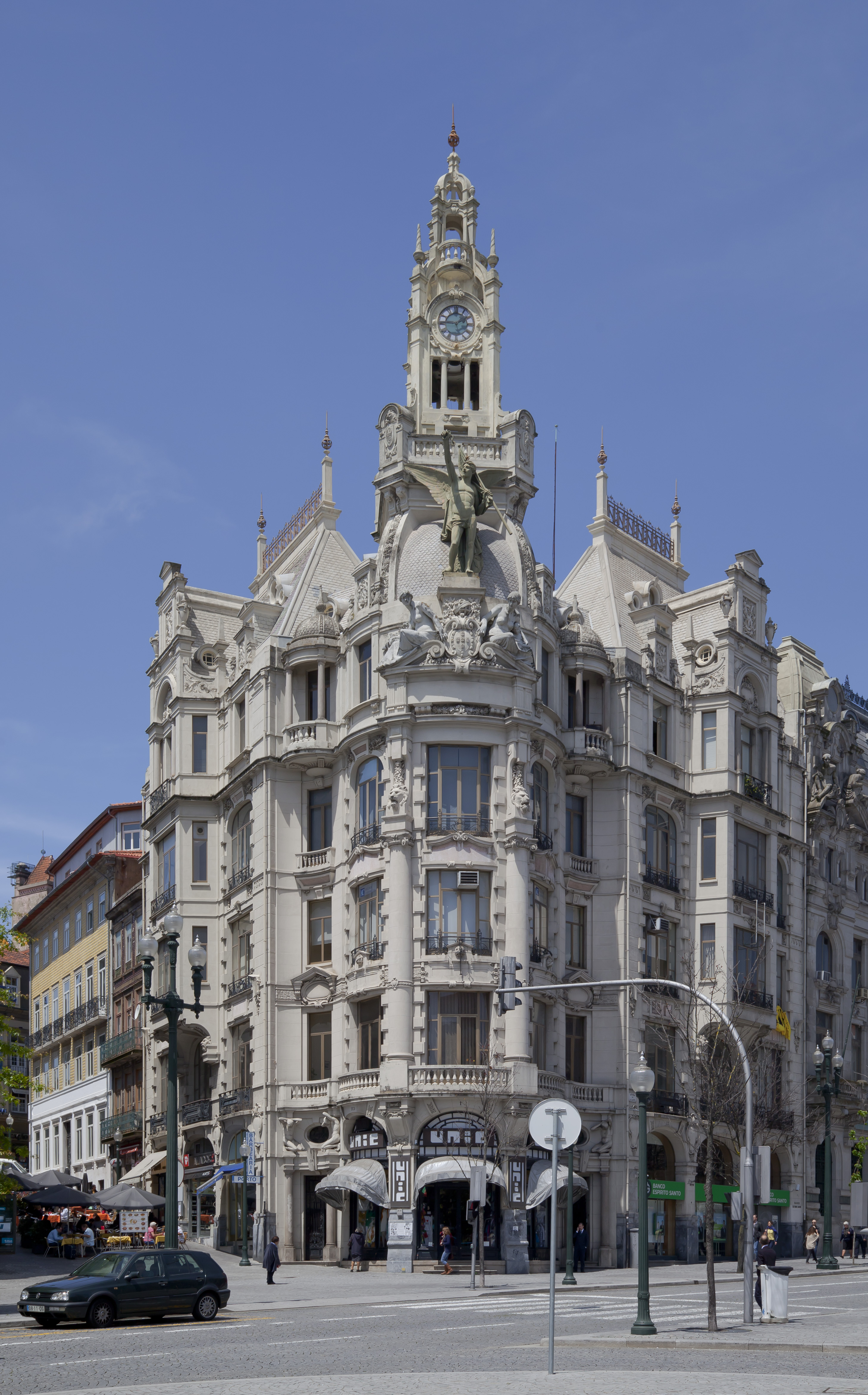 Building La Nacional, Avenida dos Aliados, Porto, Portugal